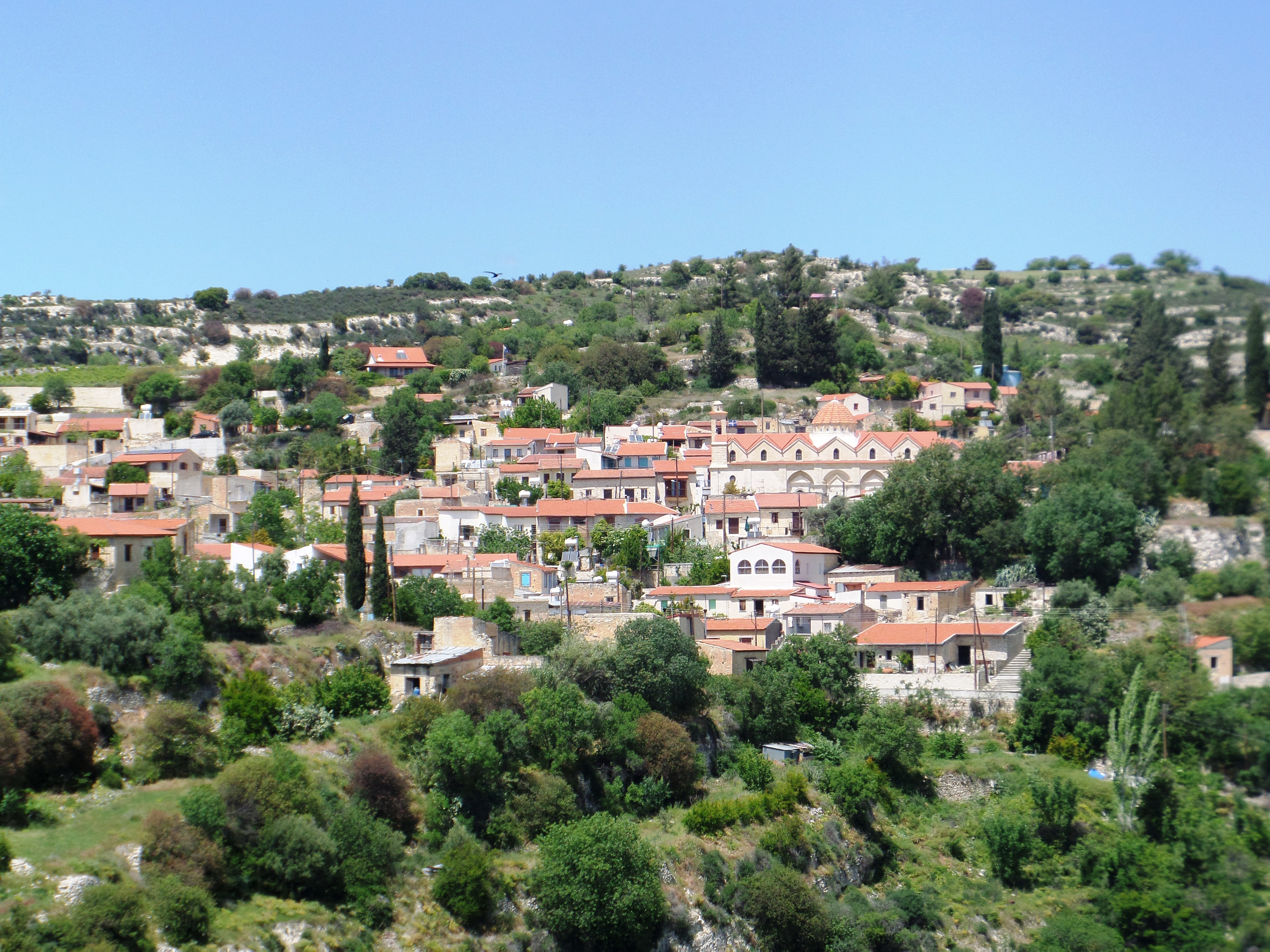 View of Vasa Koilaniou.